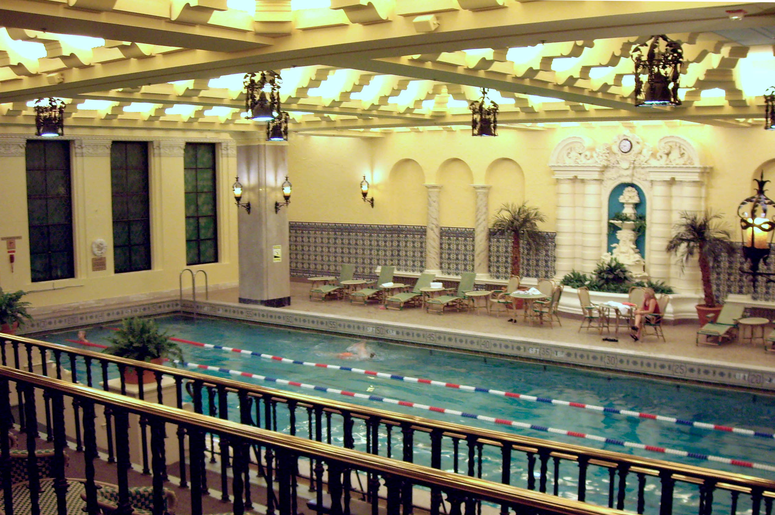 Fourteenth story pool, Intercontinental Hotel, Chicago, Illinois, June 19, 2007.